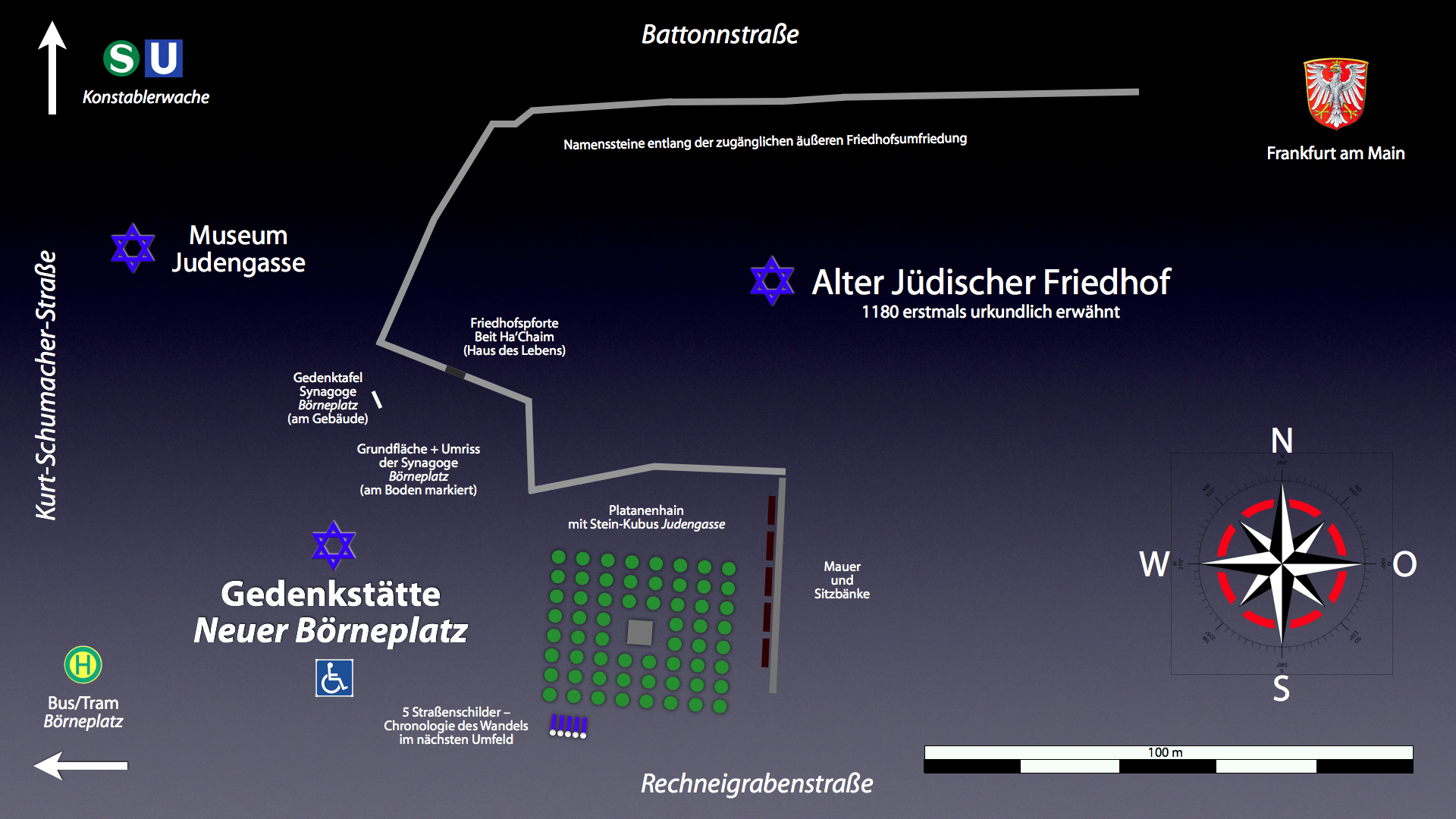 location sketch of holocaust memorial in Frankfurt am Main, Hesse, Germany